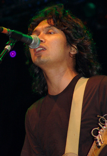 Sek Loso in concert, 2005